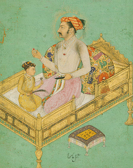 Prince Khurram (Shah Jahan) with his son Dara Shikoh: Leaf from an album made for Emperor Shah Jahan, ca. 1620; Mughal, period of Jahangir (1605–27) by Nanha, India Ink, opaque watercolor, and gold on paper